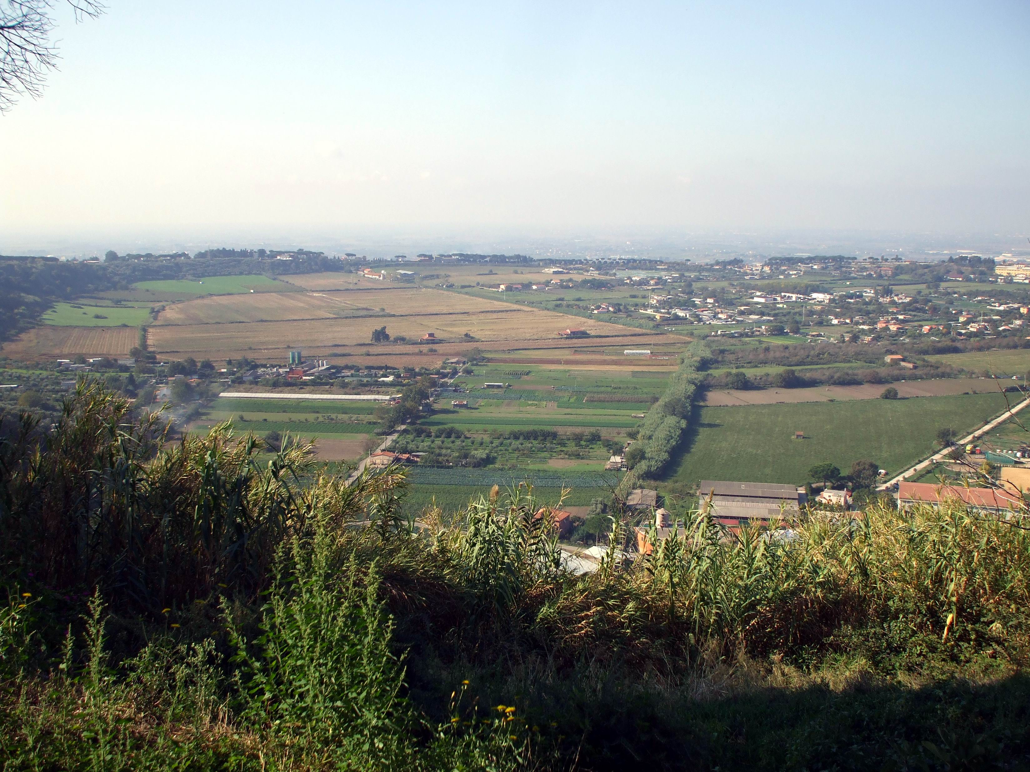 Vallericcia view